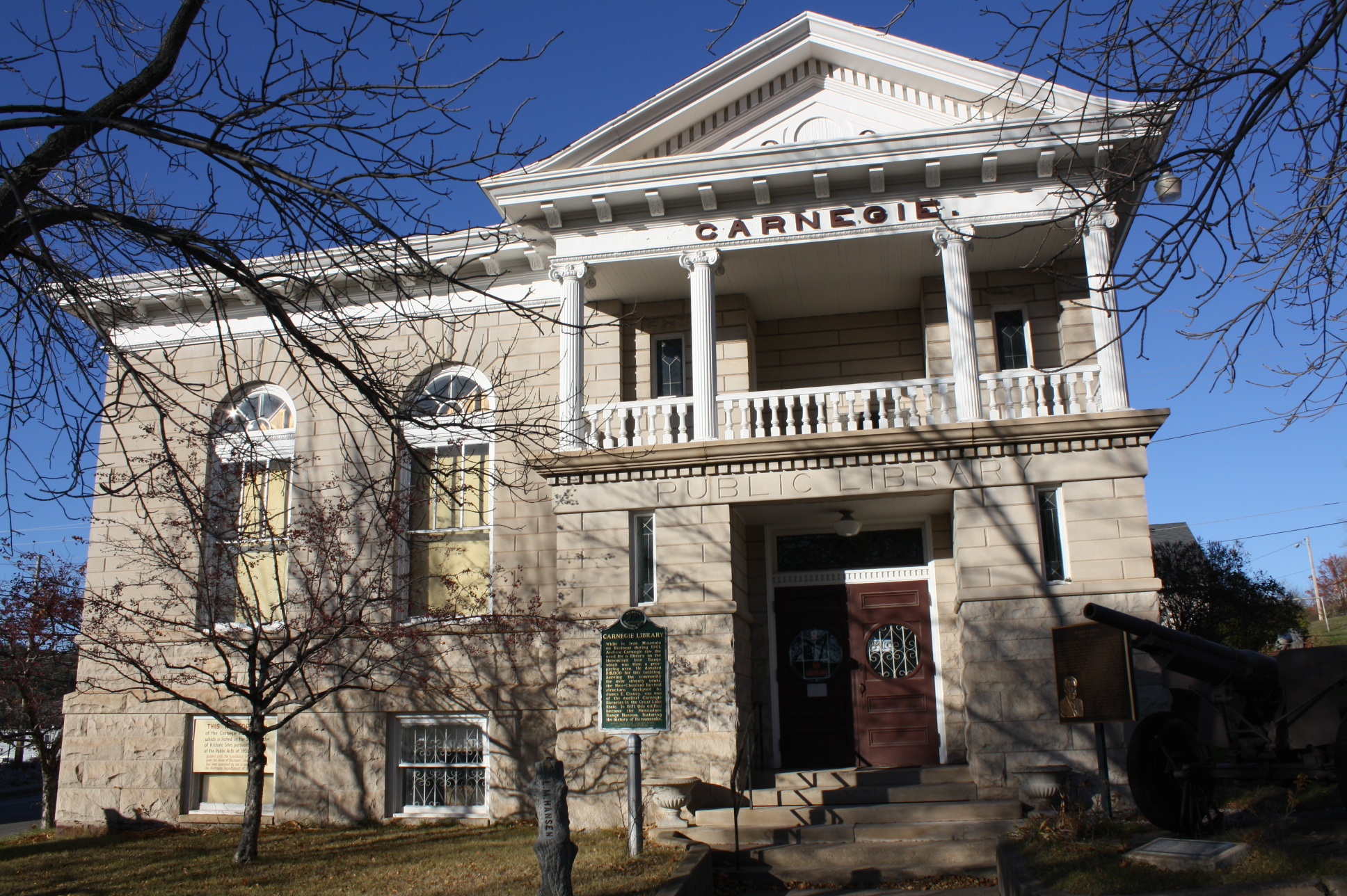 The front view of the Carnegie library in Iron Mountain, Michigan. The Menominee Range Historical Foundation Museum is located at the building.